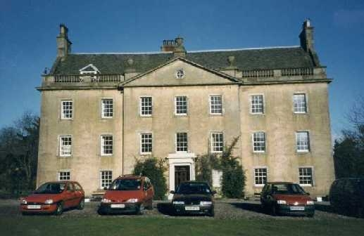 Gargunnock House. Gargonnock House owned & let by The Landmark Trust. 11 of us stayed here in Feb 2000